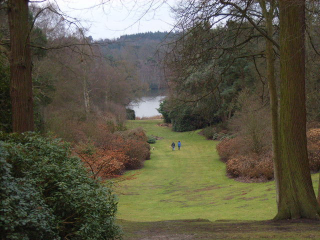 The Valley Gardens, Windsor Great Park The view from a gazebo in the gardens down to Virginia Water.